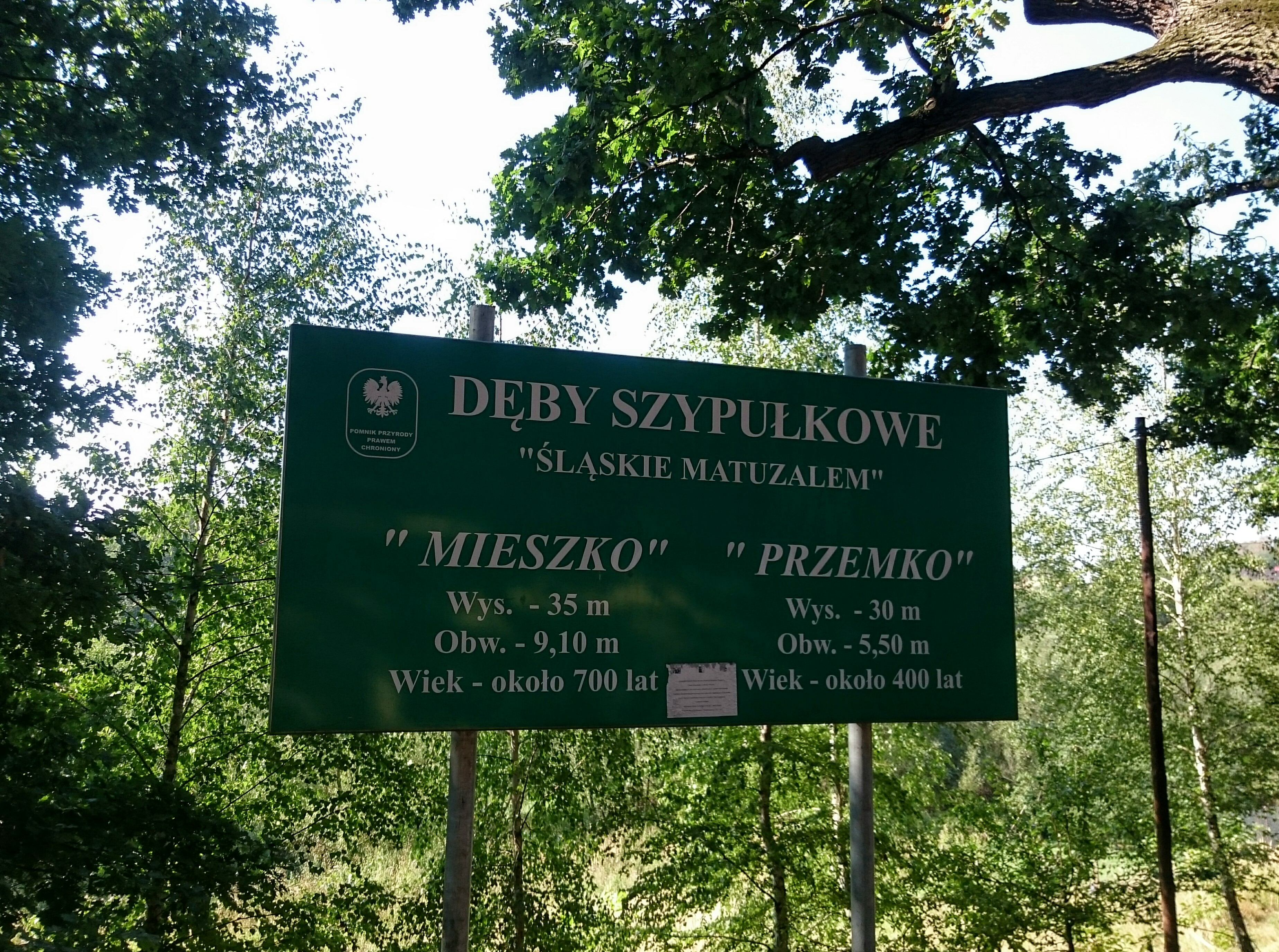 Information pertaining large oaks in Kończyce Wielkie (Poland).